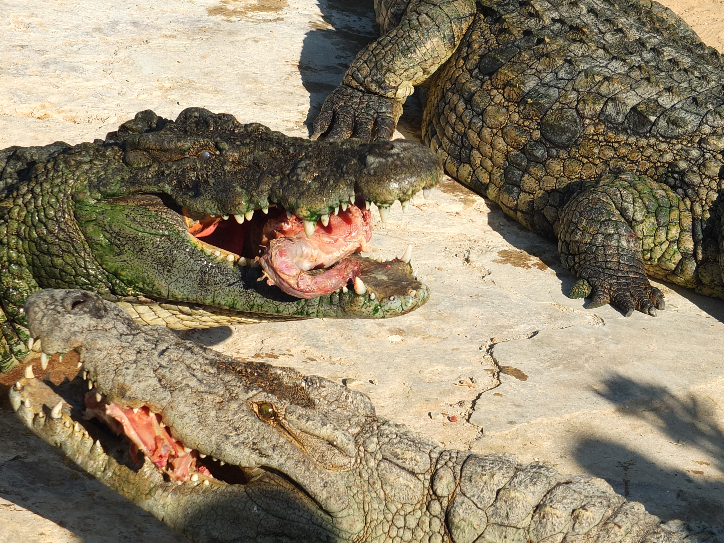 Nile crocodiles in the crocodile farm of Djerba Explore.